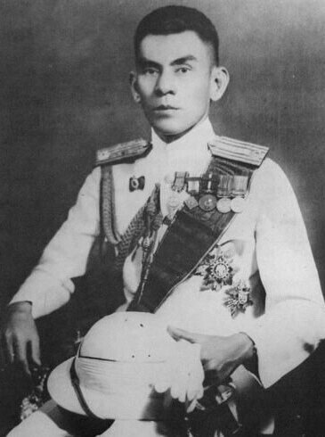 Photograph of Rear Admiral Thawal Thamrong Navaswadhi, Prime Minister of Thailand 1946-47.